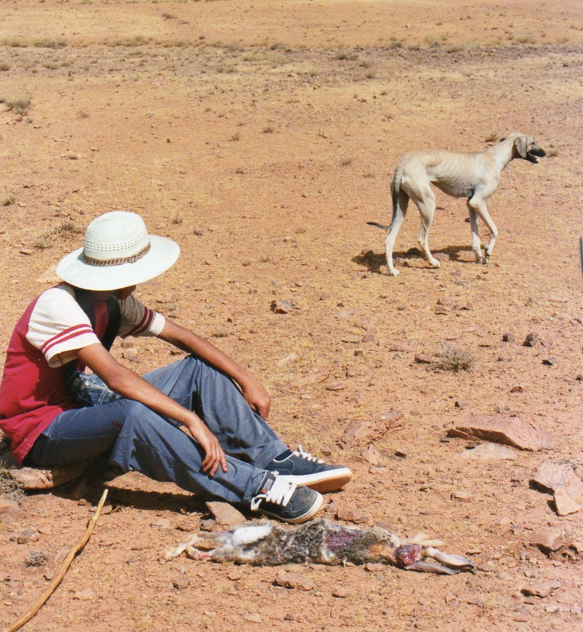 Rabit hunter in Morocco. Clandestine hunting with greyhounds.